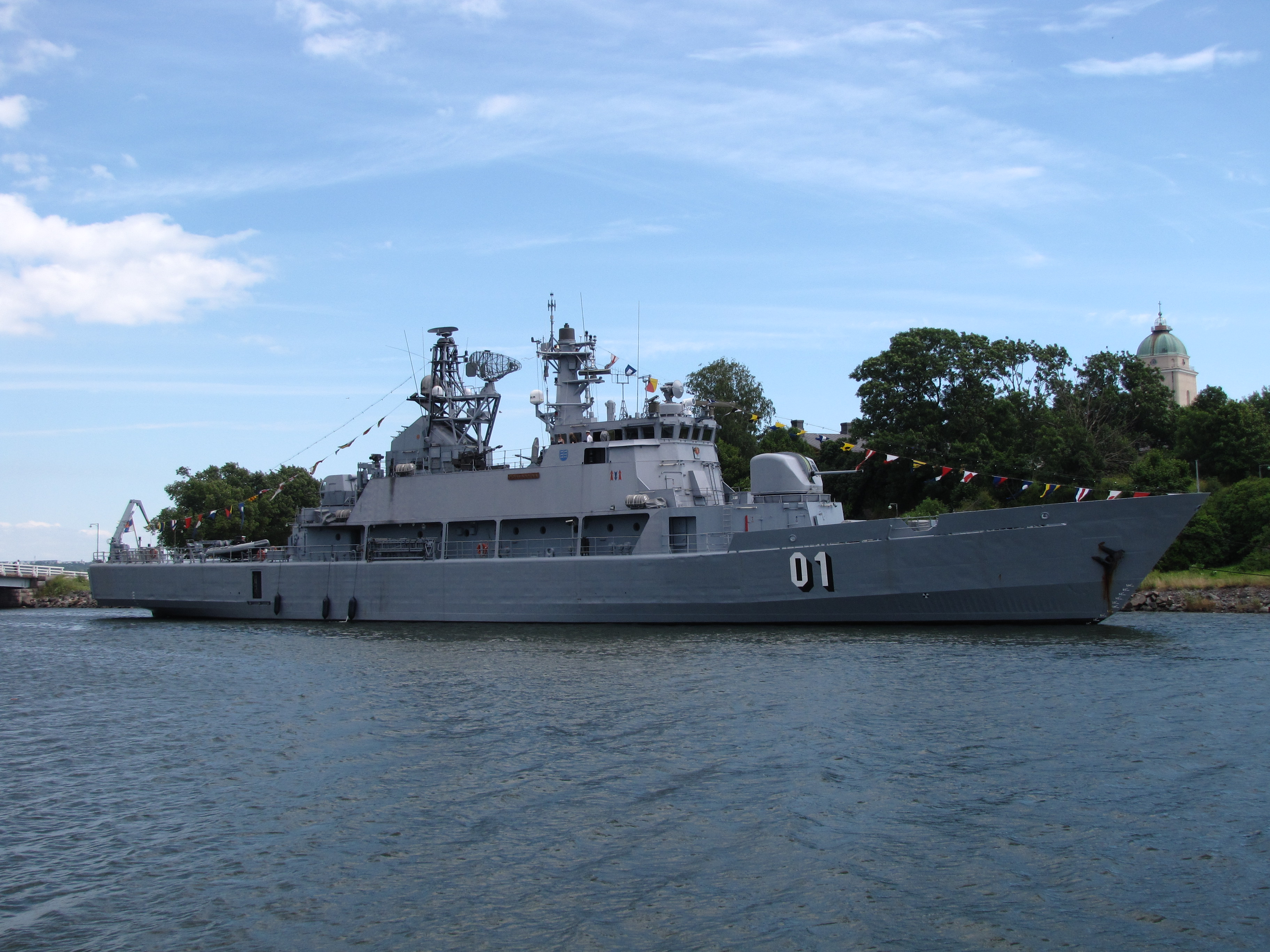 Finnish minelayer Pohjanmaa (01) in Suomenlinna.